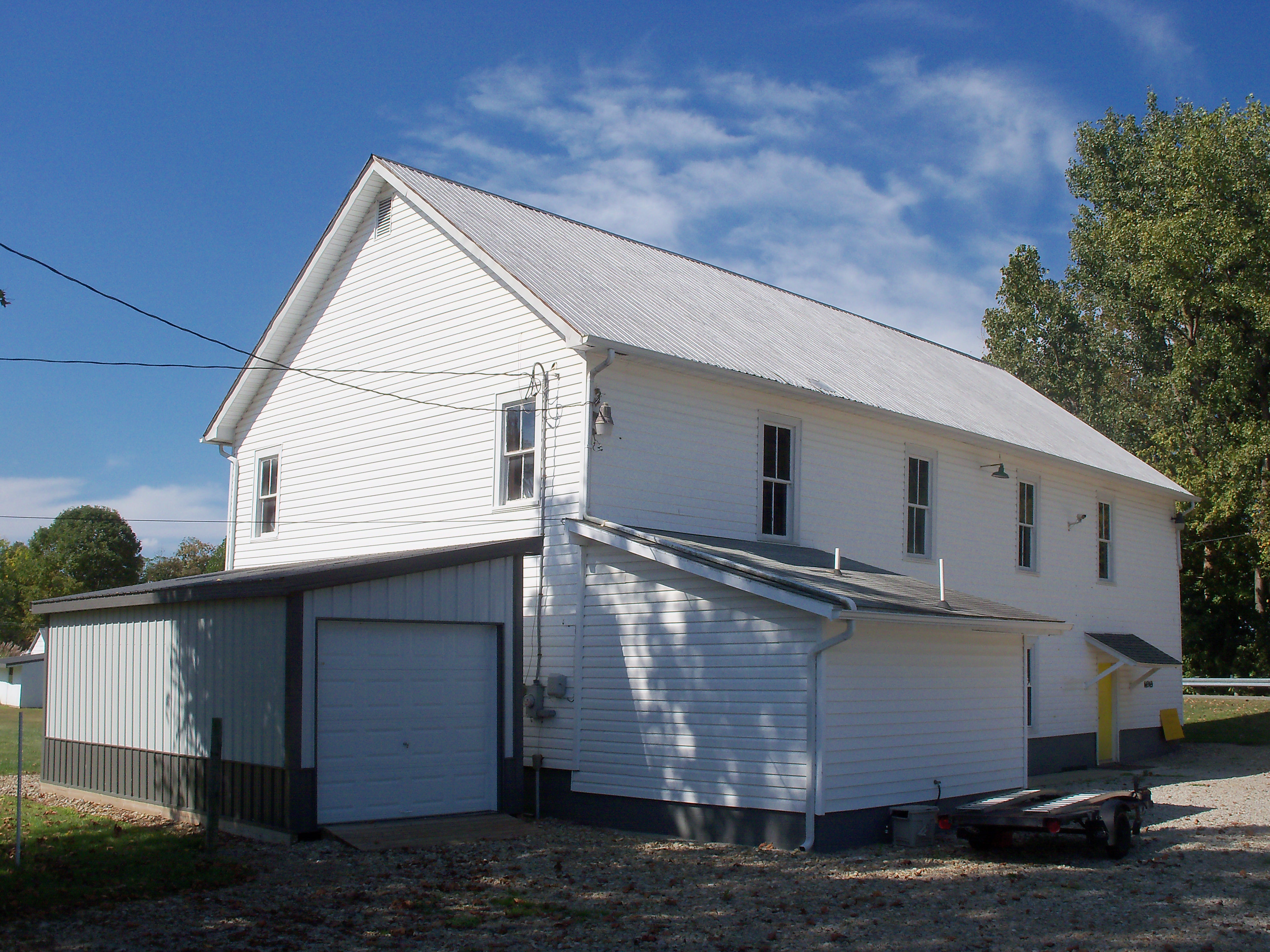 Grange Hall northwest of Coshocton, Ohio